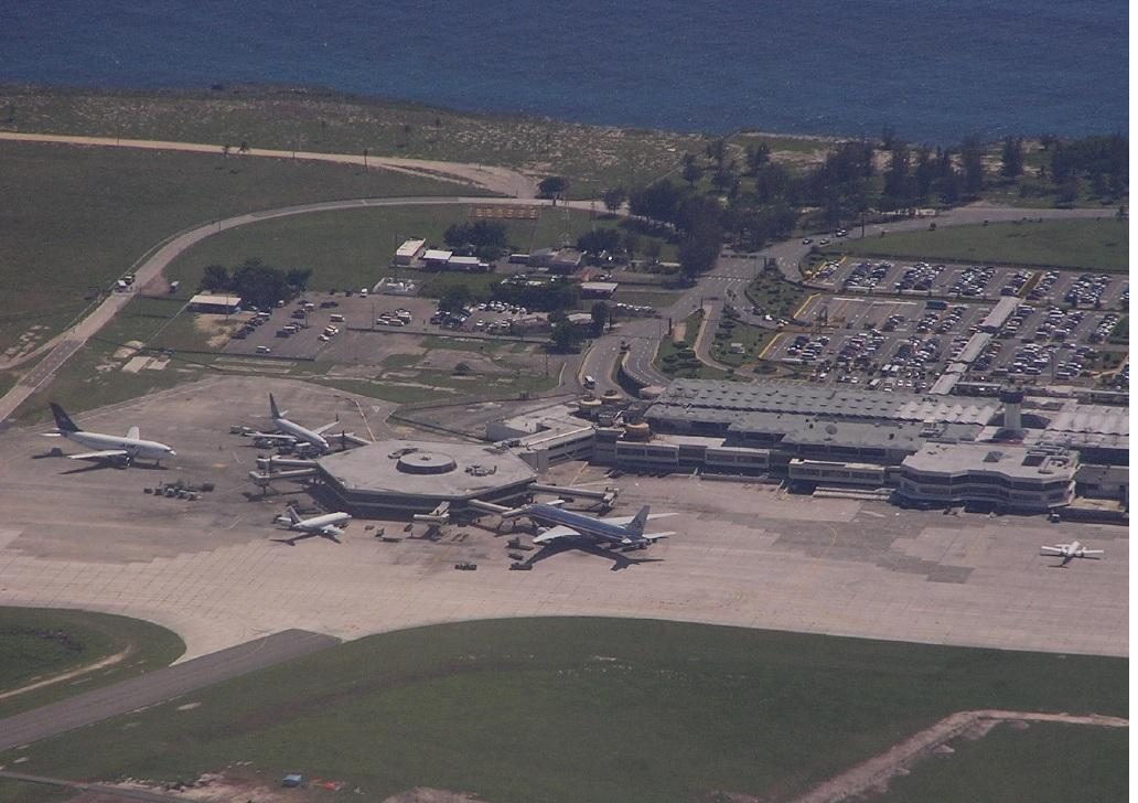 Terminal A; in gate A2 an Boeing 777 of American Airlines, in gate A1B a Boeing 737-200 operated by Aeromar Lineas Aereas Dominicanas, arriving at gate A5 is Air Comet Airbus A310 and at gate A6 is Copa Airlines Boeing 737-800